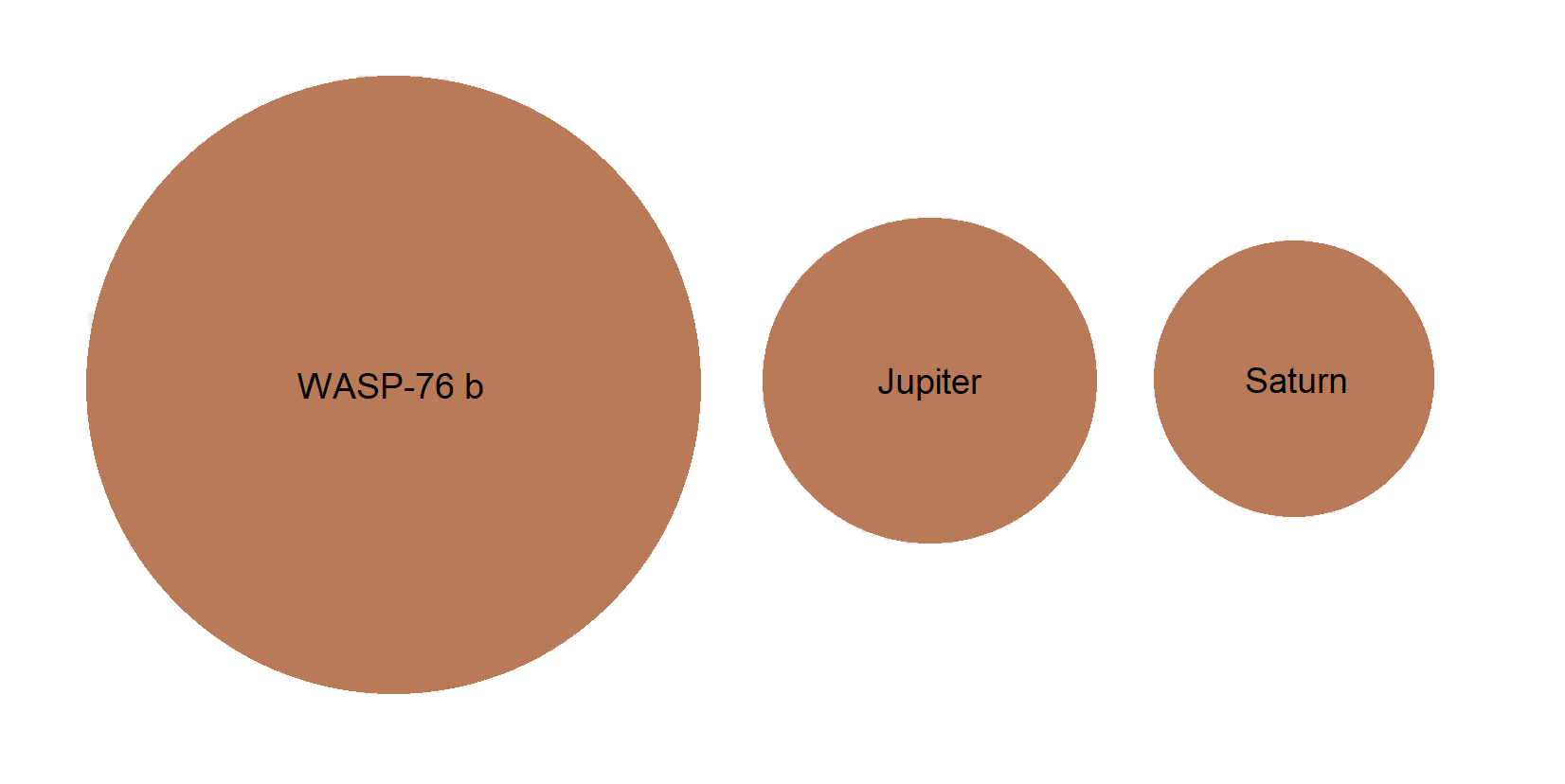 The image shows the sizes of WASP-76 b, Jupiter and Saturn in comparison